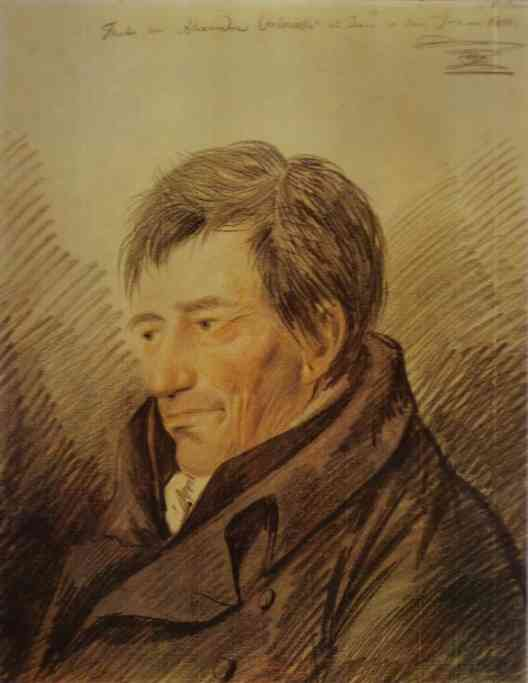 Portrait of Muzio Clementi (1752-1832)